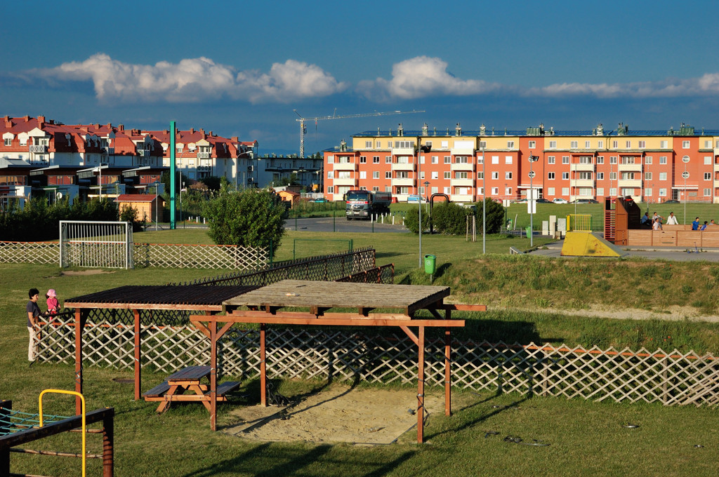 Gänserndorf